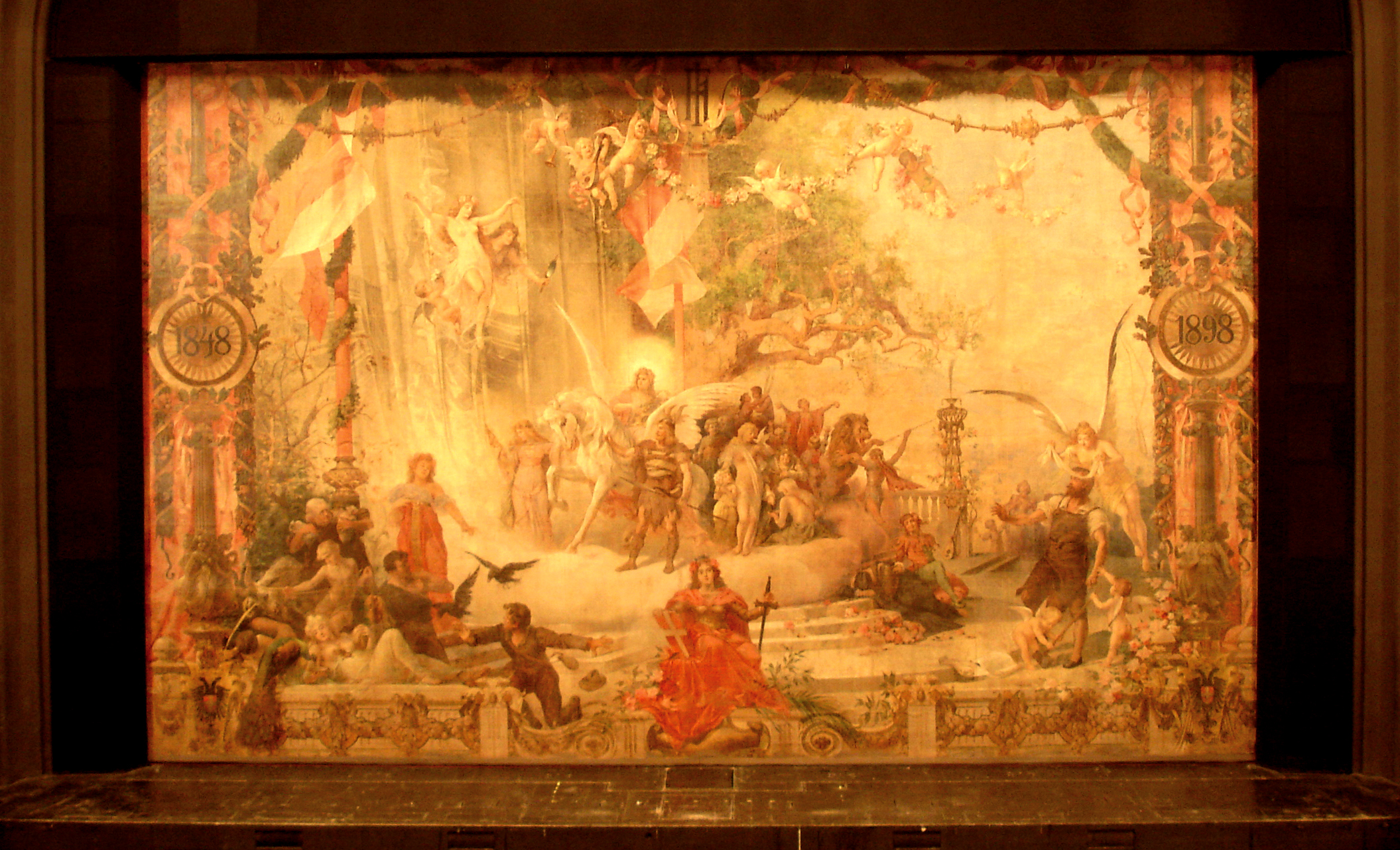 Iron Curtain of Viennas popular Opera (Volksoper)